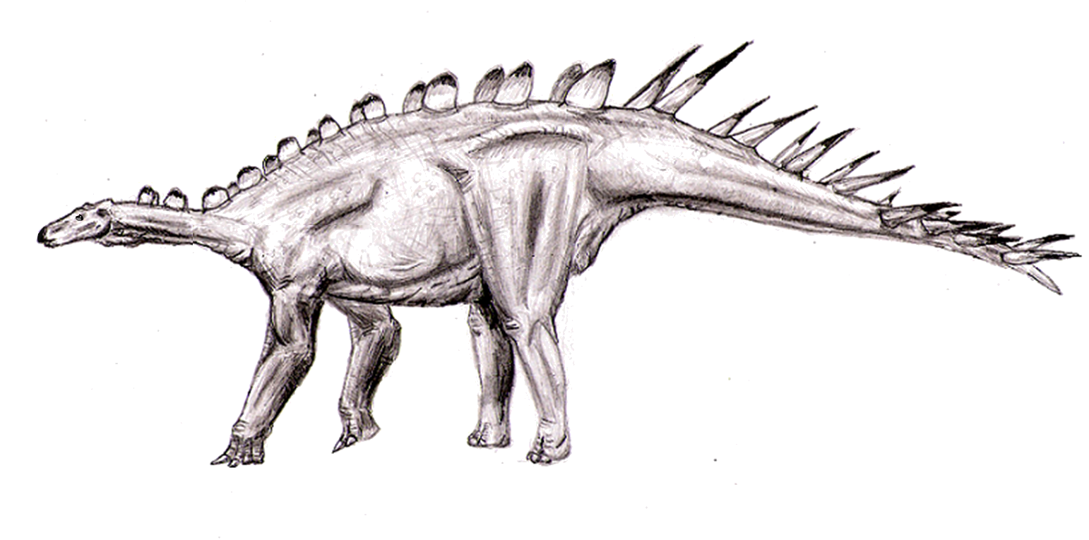 Pencil drawing of Dacentrurus by Smokeybjb